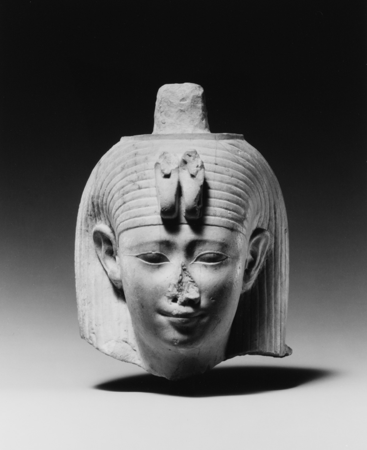 Head of a statue of Arsinoe II